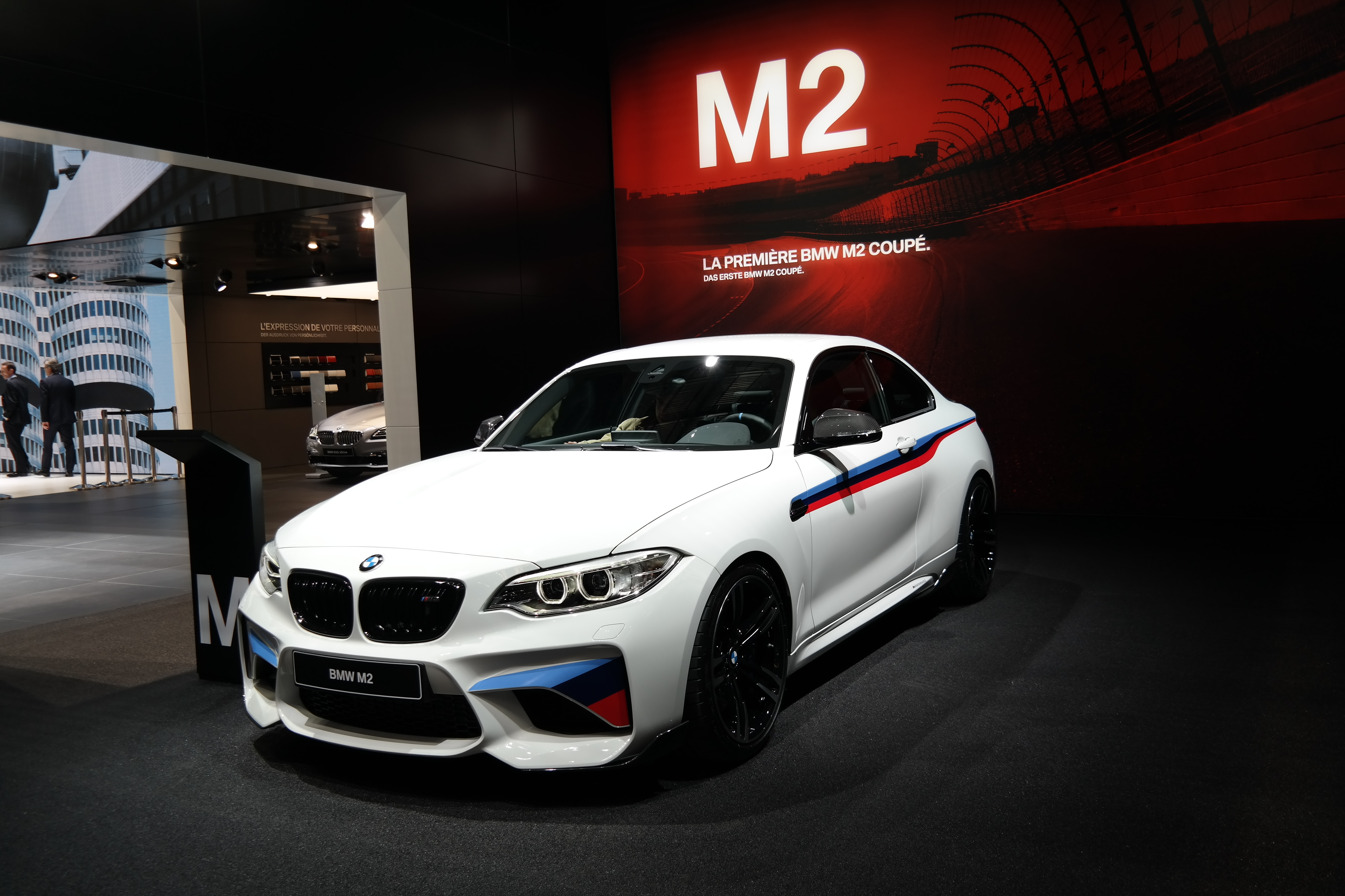 Geneva Motor Show 2016 (photo taken on the first press day)